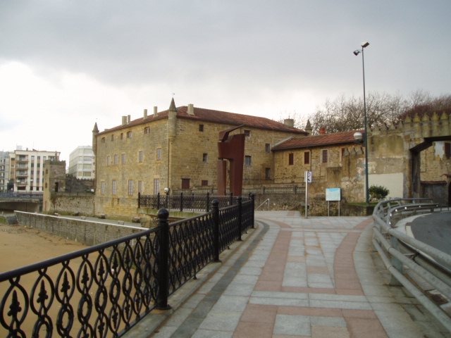 Palace of Narros in Zarautz (Gipuzkoa).